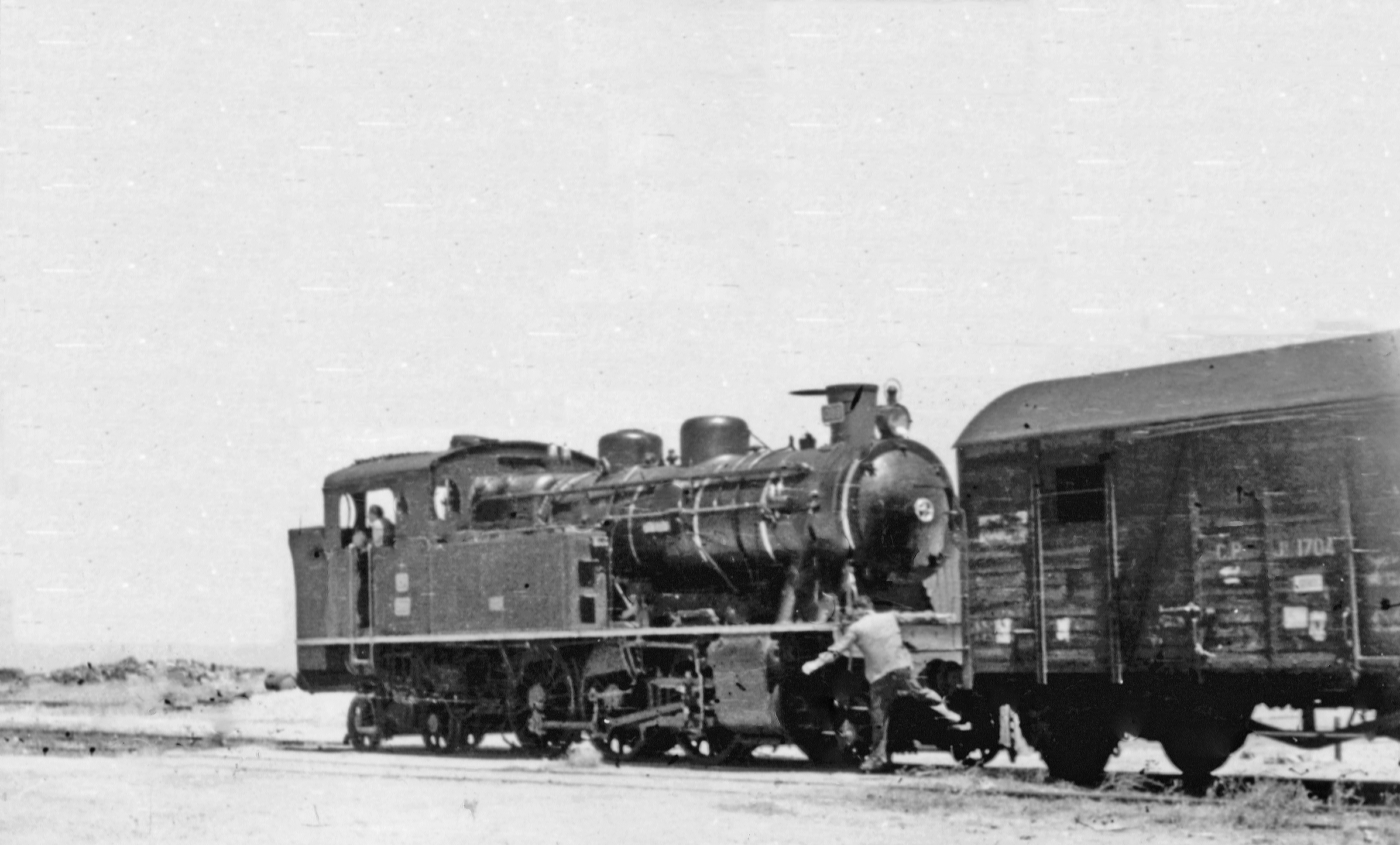 A CP 2-6-4T on the quay at Santa Apolonia station, Lisboa 1956.